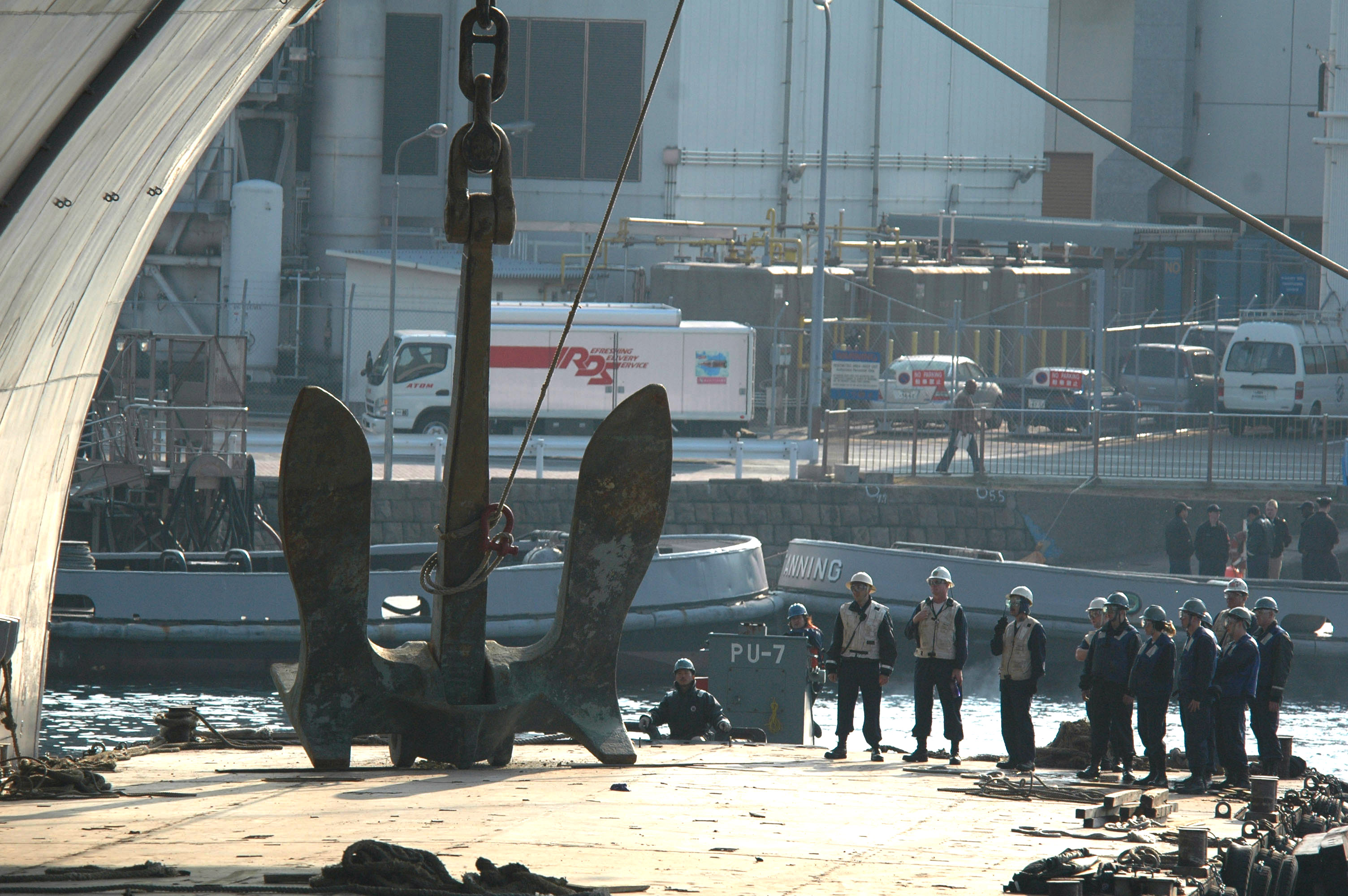 Yokosuka, Japan (Jan. 16, 2007) - Deck department Sailors stand clear of the starboard anchor of USS Kitty Hawk (CV 63) as it is lowered onto a barge. The anchor was being removed so regular maintenance could be performed on the detachable links. Kitty Hawk has two anchors weighing 30 tons each. The length of anchor chain is 1,080 feet and each link weighs 360 pounds. U.S. Navy photo by Mass Communication Specialist 3rd Class Juan Antoine King (RELEASED)